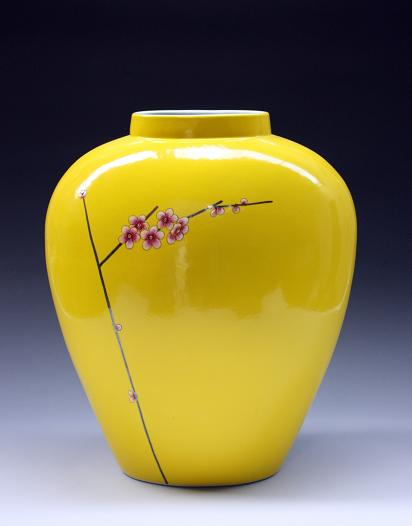 plum tree vase